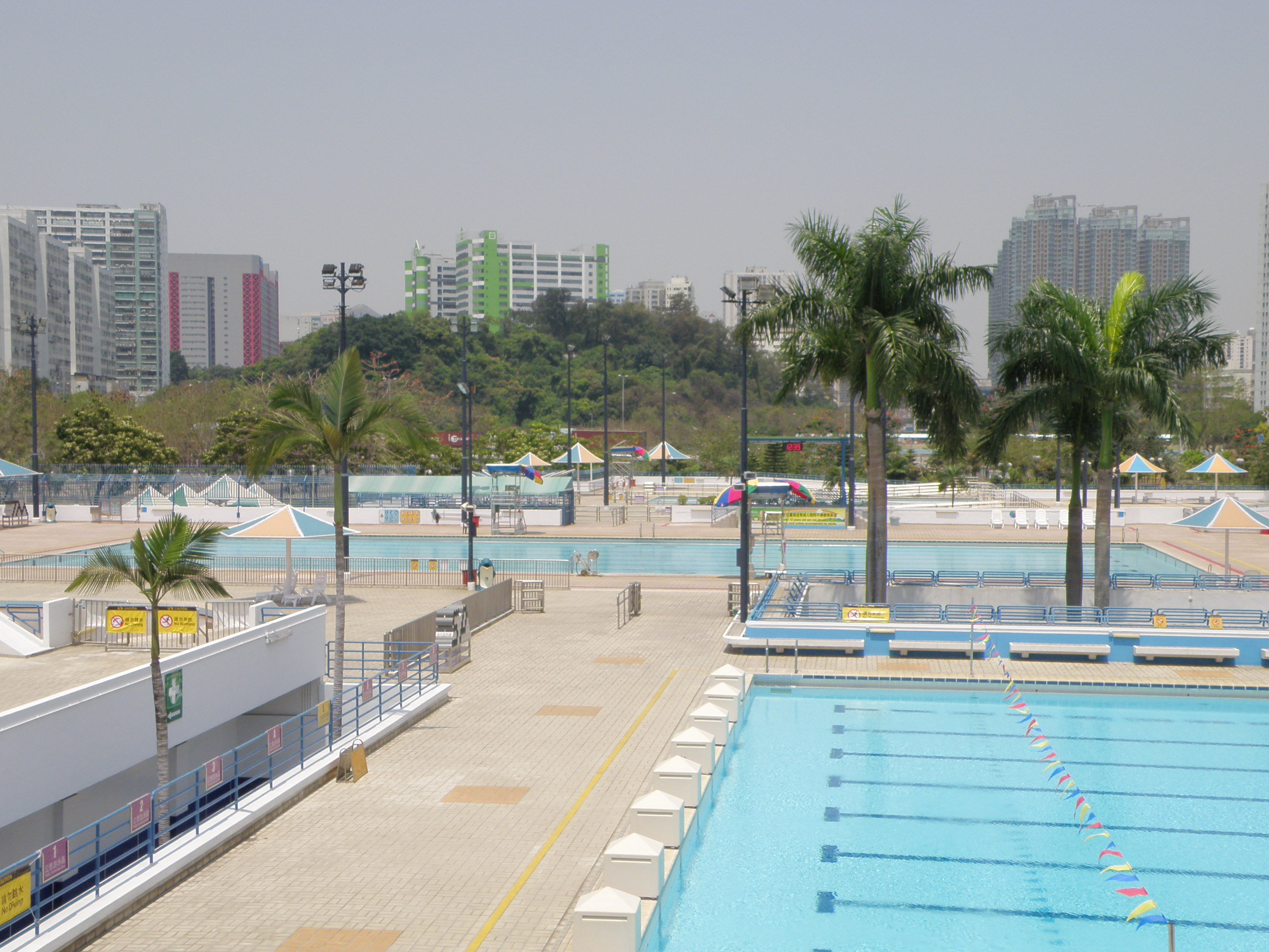 Tuen Mun Swimming Pool in Tuen Mun, Hong Kong.